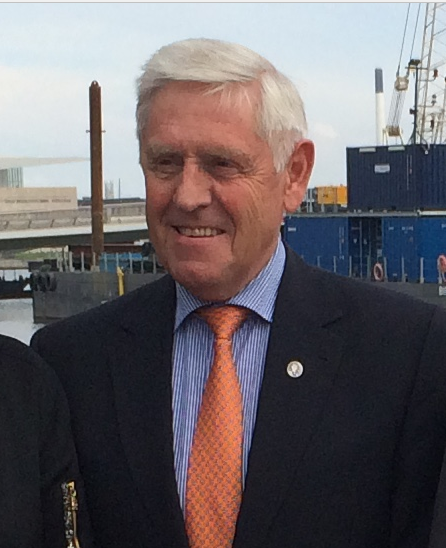 Poul Michelsen, Minister of Trade and Industry of the Faroe Islands at the meeting of ministers of the Nordic Baltic co-operation (nordiskt-baltiskt samarbete) on September 23, 2015